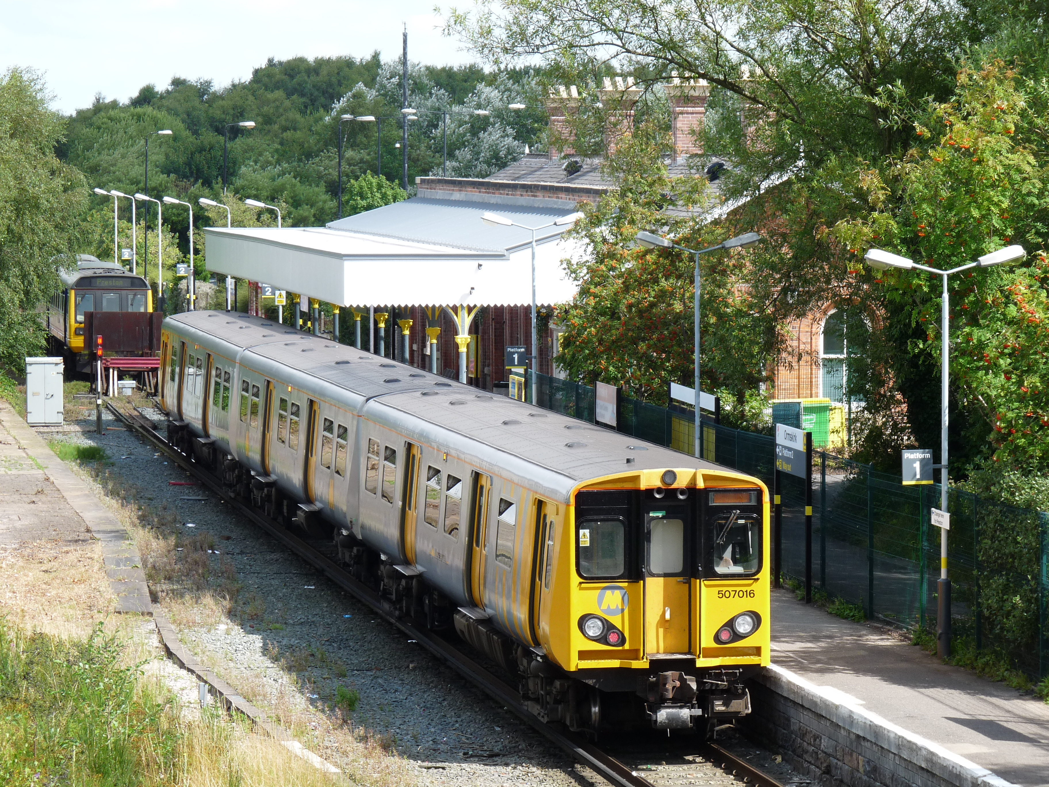 View of Ormskirk railway station facing north from the Derby Street road bridge. The train in the foreground at platform 1 is a Merseyrail electric bound for Liverpool, while the train in the background at platform 2 is a Northern Rail diesel bound for Preston. Note the buffers in the track which seperate the two services.